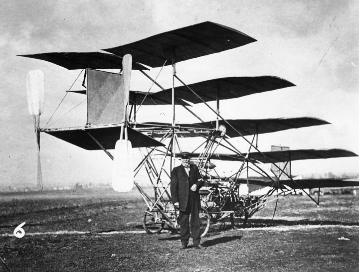 Professor J.S. Zerbe stands in front of his multiplane, an 8 cylinder, aircooled airplane, with 5 planes and 2 props. There were two International Aviation Meets held at Dominguez Field, Los Angeles. The first ran from Jan. 10-20, 1910; the second from Dec. 24-30, 1910-Jan. 1 and 3, 1911.